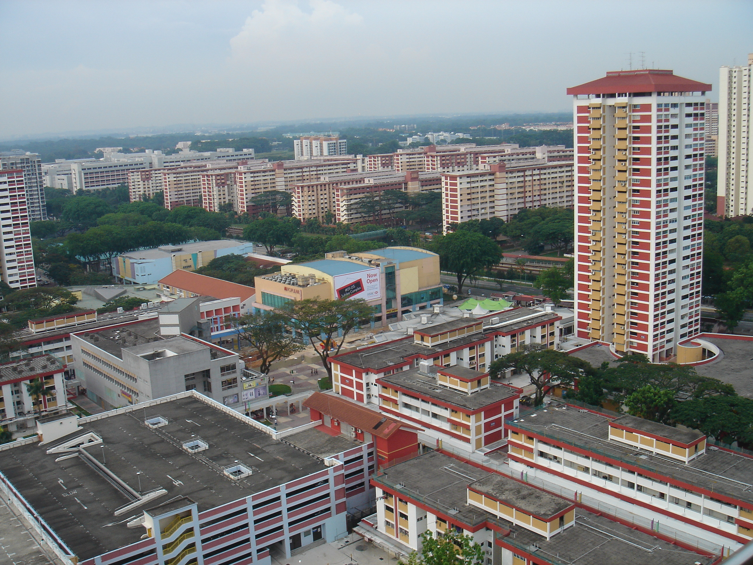 Top view of Ang Mo Kio, Singapore.